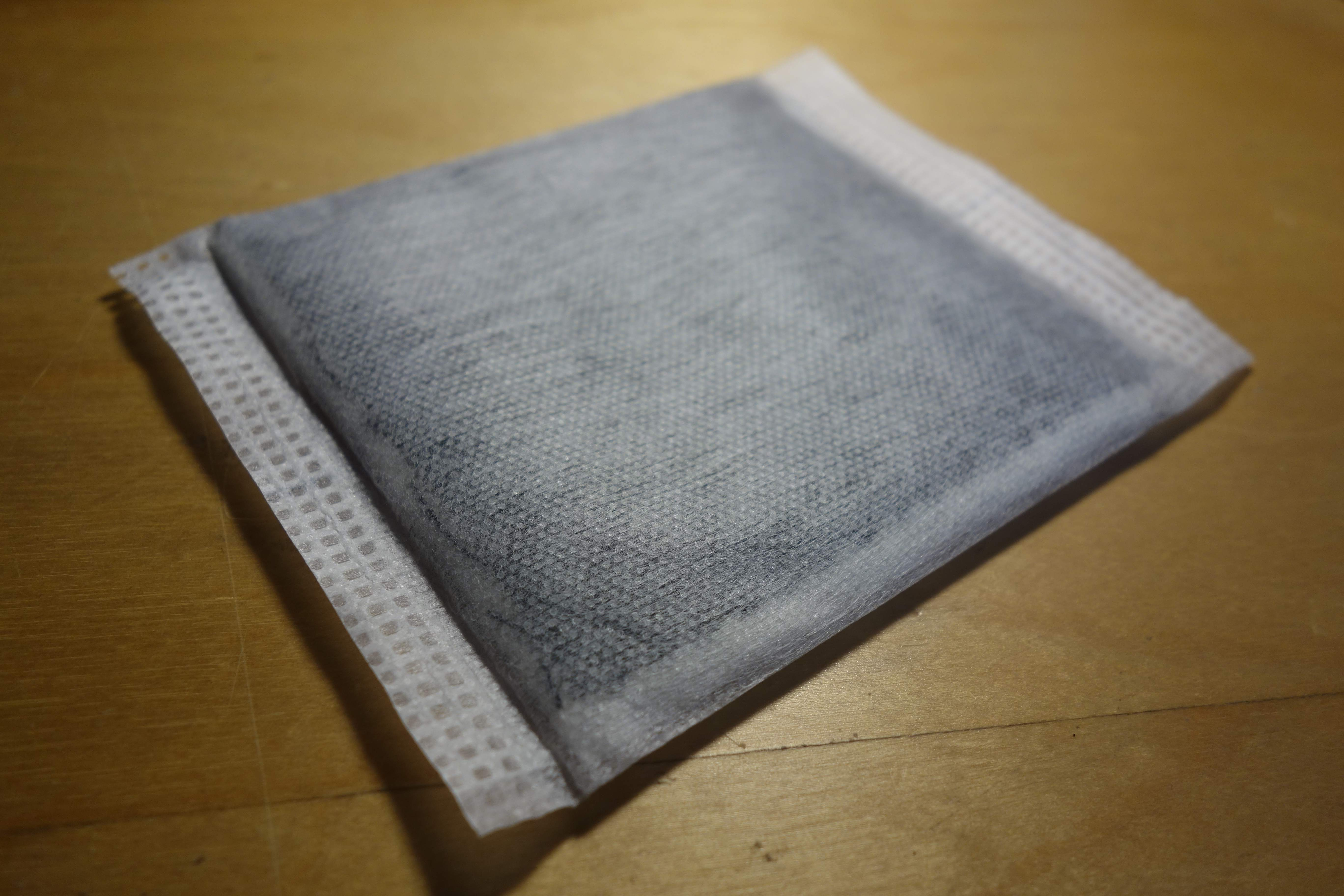 Wound dressing with coal